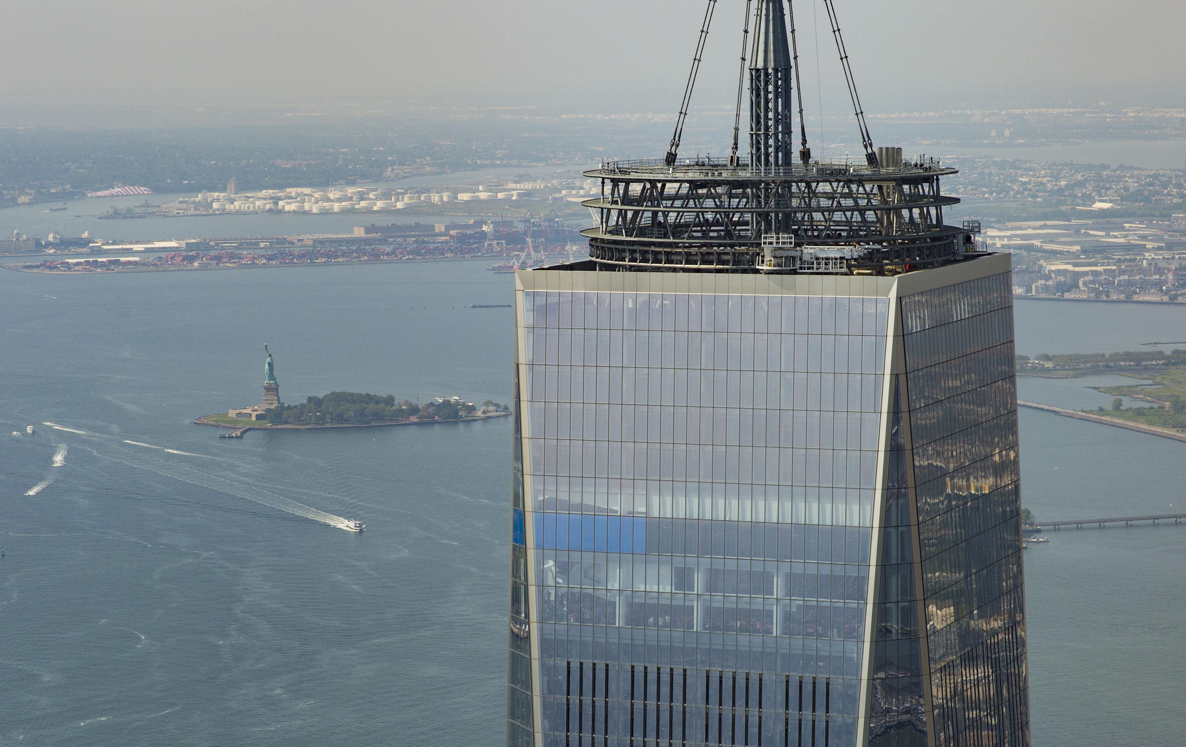 Customs and Border Protection return to the Freedom Tower at the World Trade Center in New York City for the first time since the 9/11 terrorist attacks. Photos by James Tourtellotte